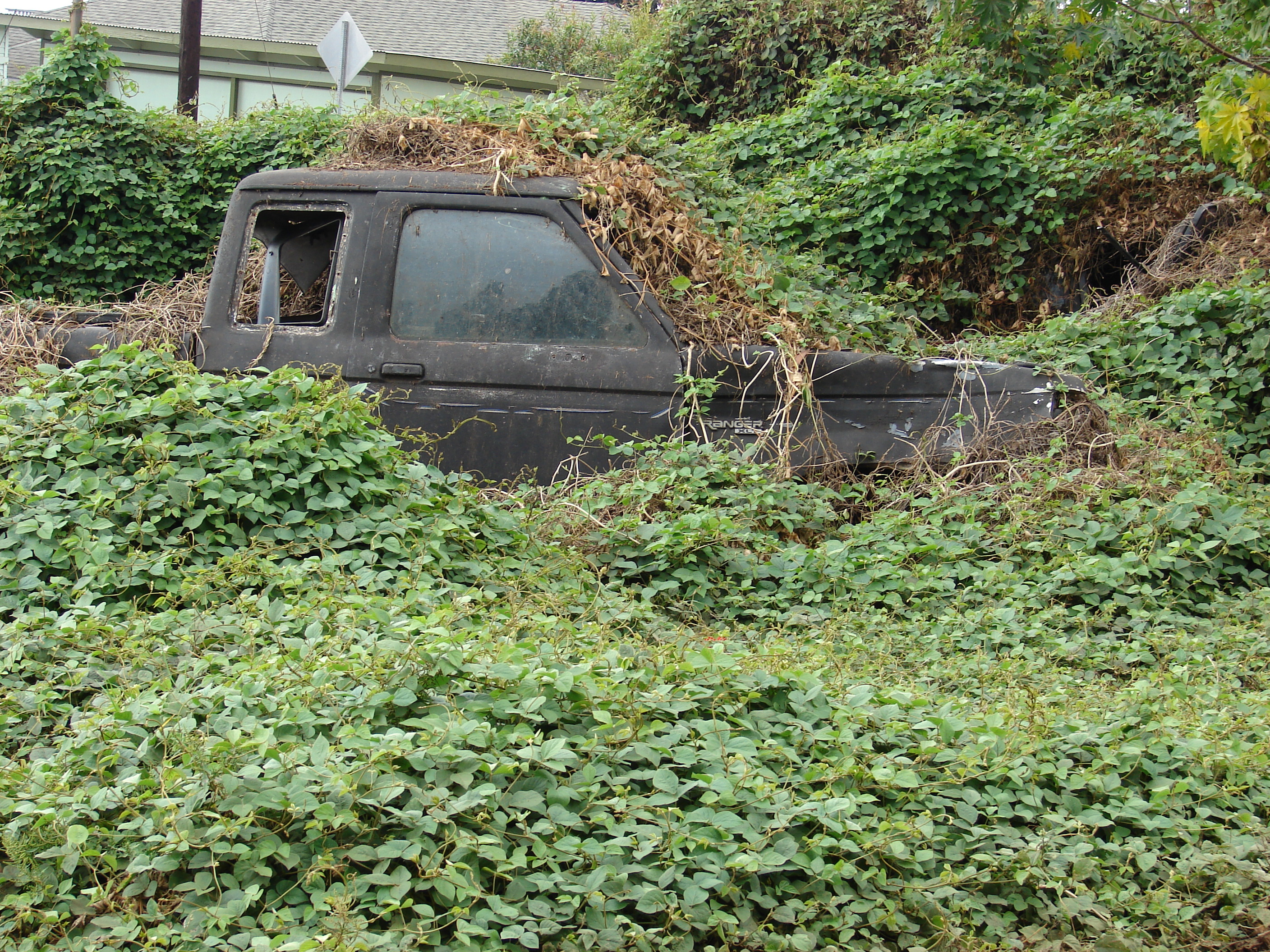 Neonotonia wightii (smothering abandoned vehicle). Location: Maui, Kula